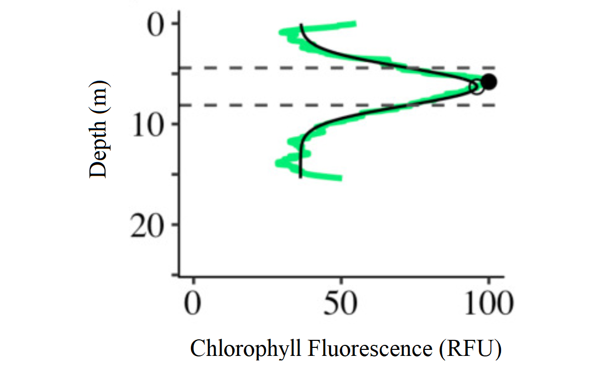 Level of chlorophyll fluorescence in Pincher Lake (Ontario, Canada).